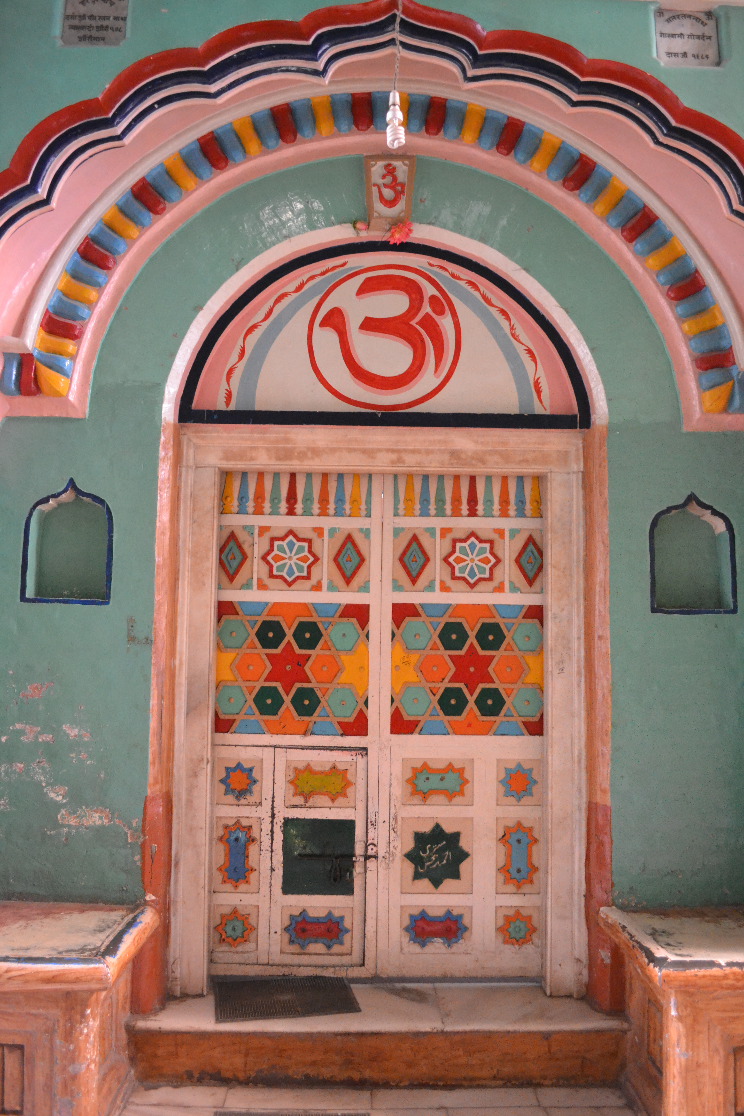 Door of a Hindu Temple in Karimpura Peshawar, Pakistan